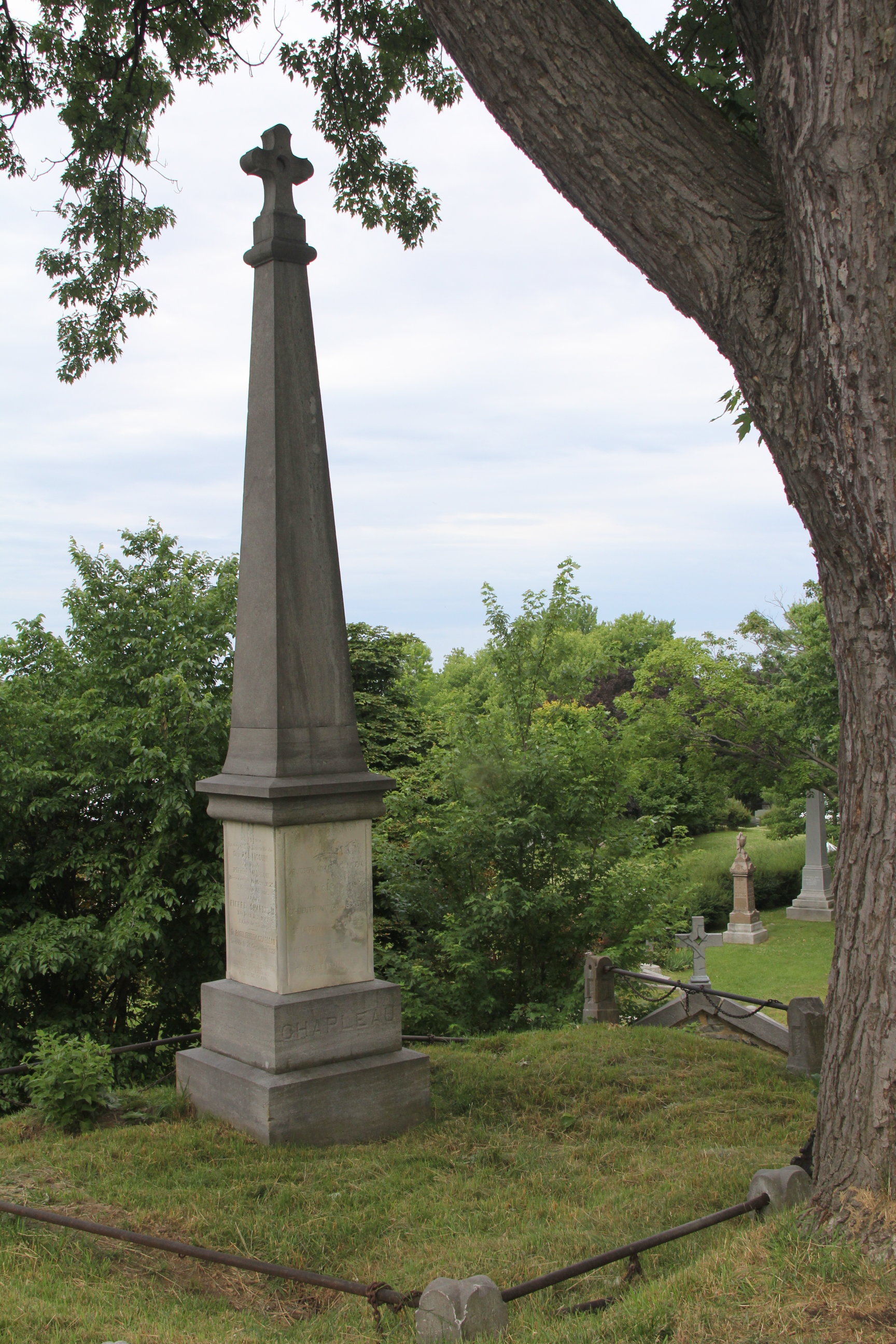 Adolphe Chapleau’s (1840-1898) tombstone, Notre-Dame-des-Neiges Cemetery (C64), Montreal.